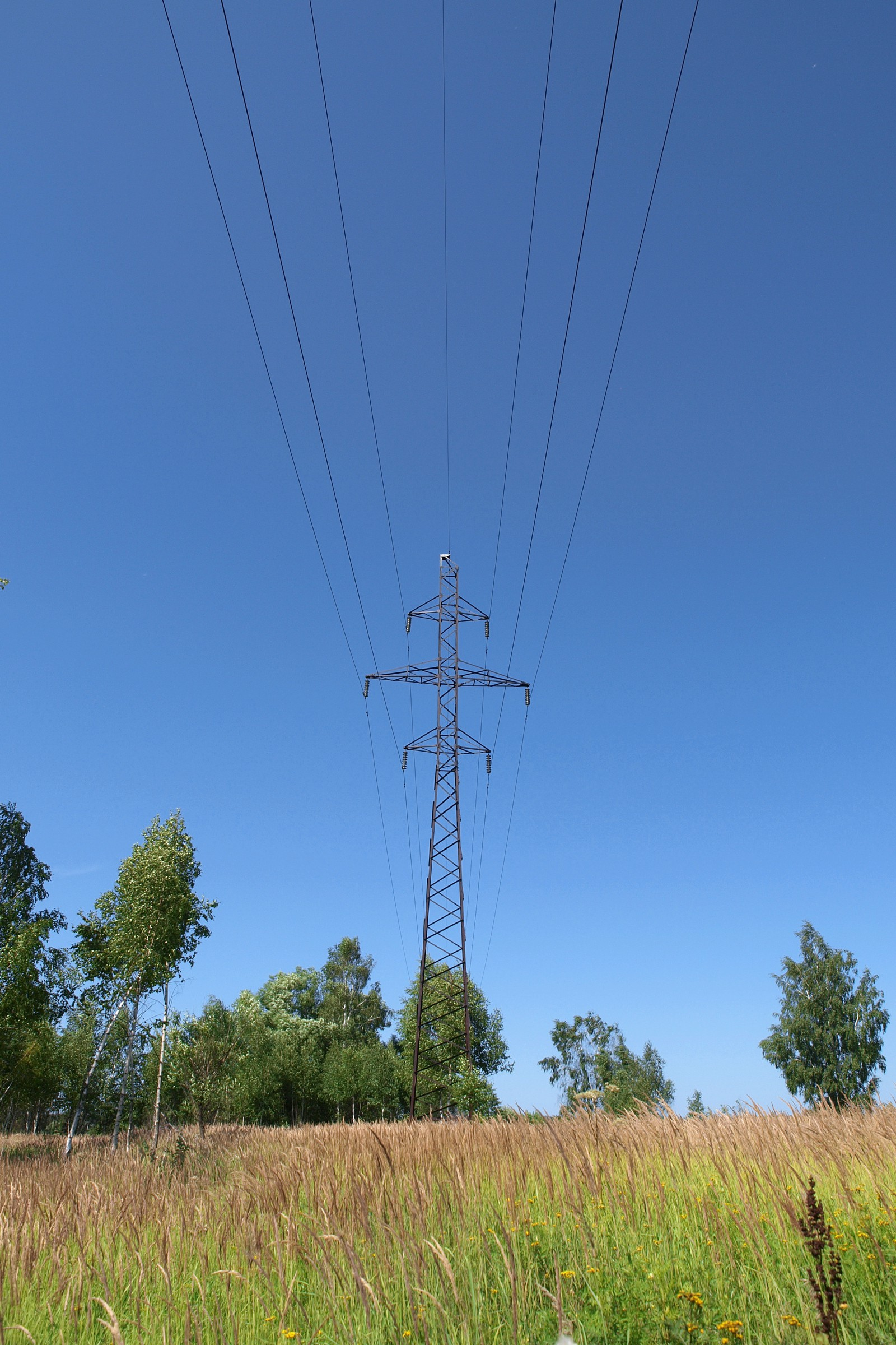 Pavlovsky Posad. Pylons north of Karpovskaya St.